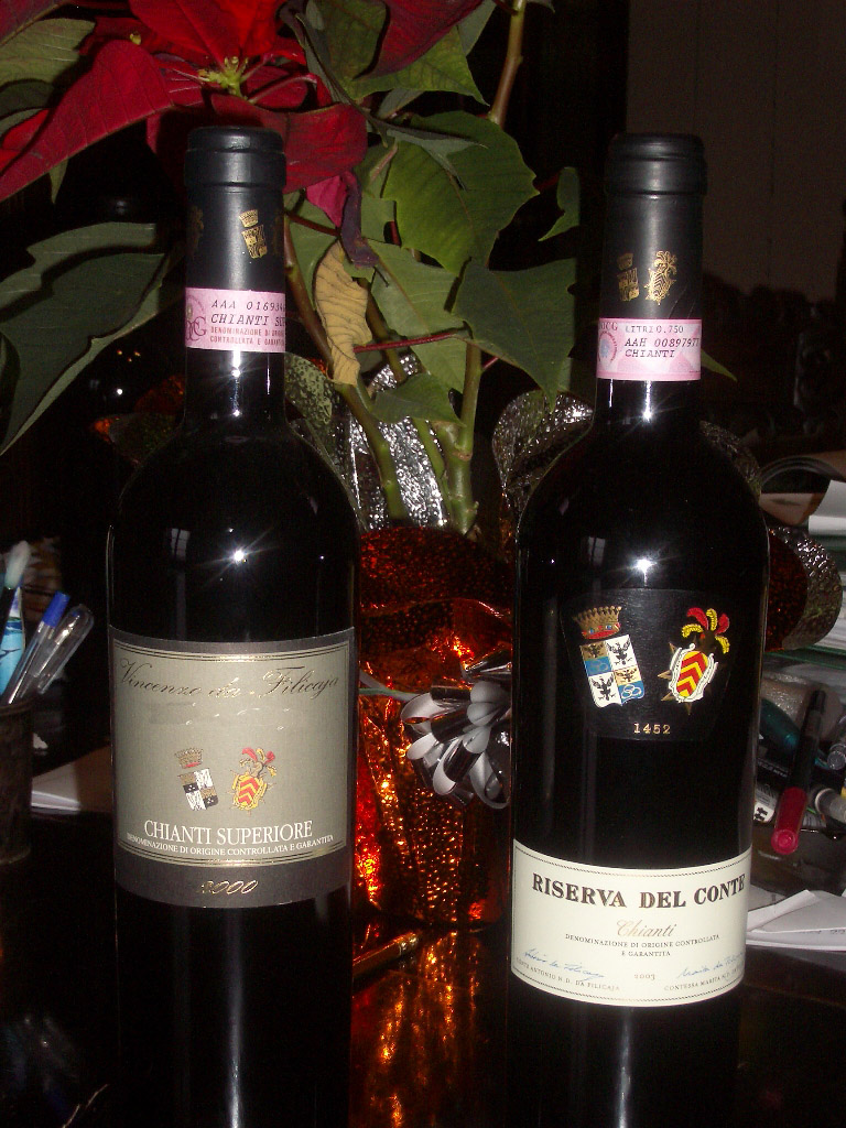 a bottle of Chianti and a bottle fo Chianti Superiore